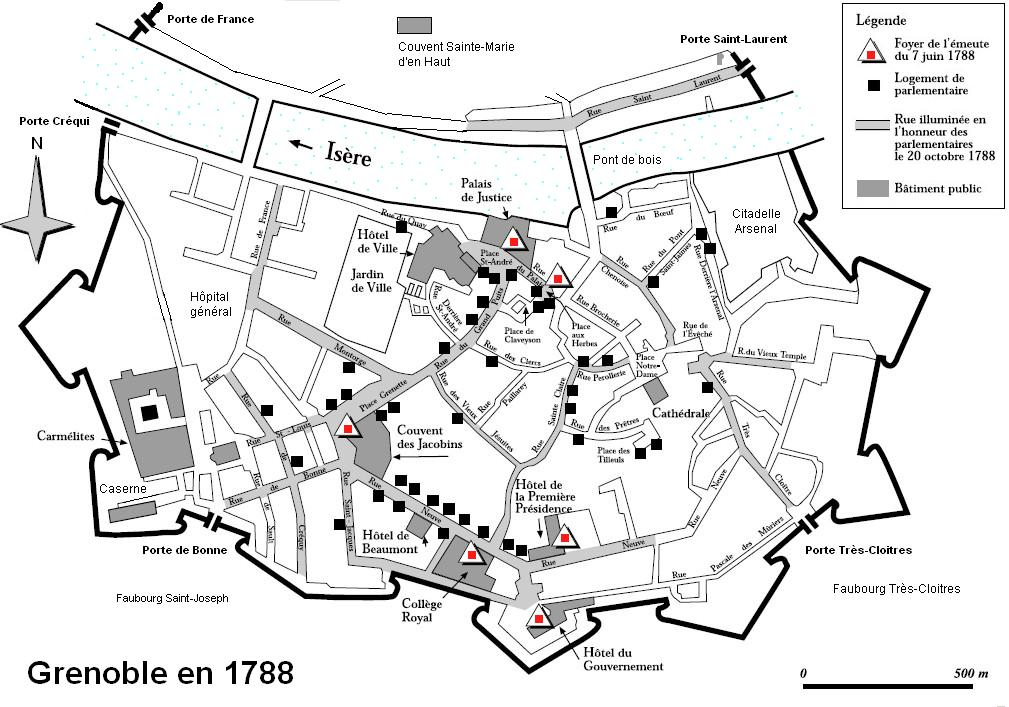 Grenoble 1788 : Day of the Tiles